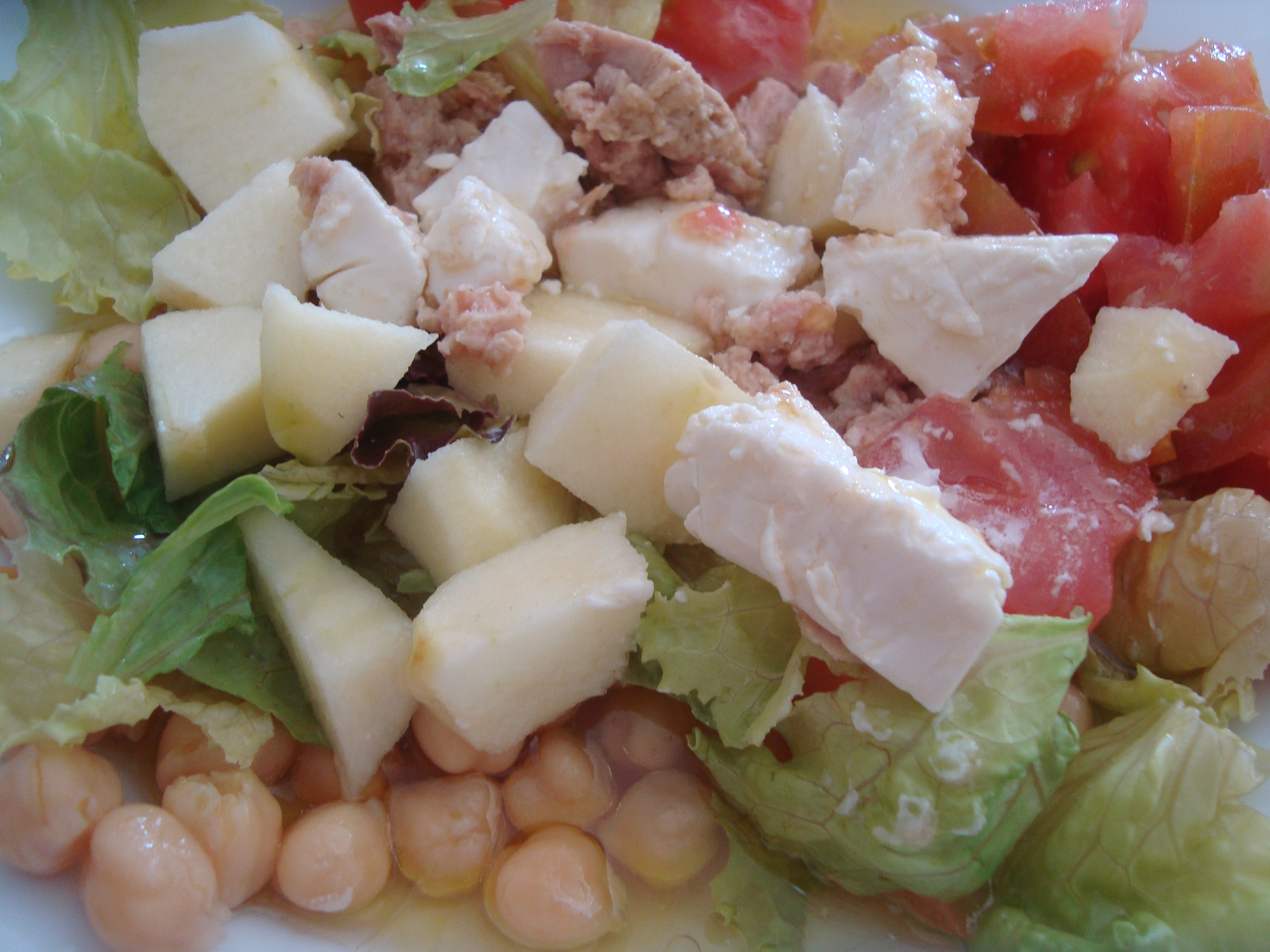 Mediterranean salad